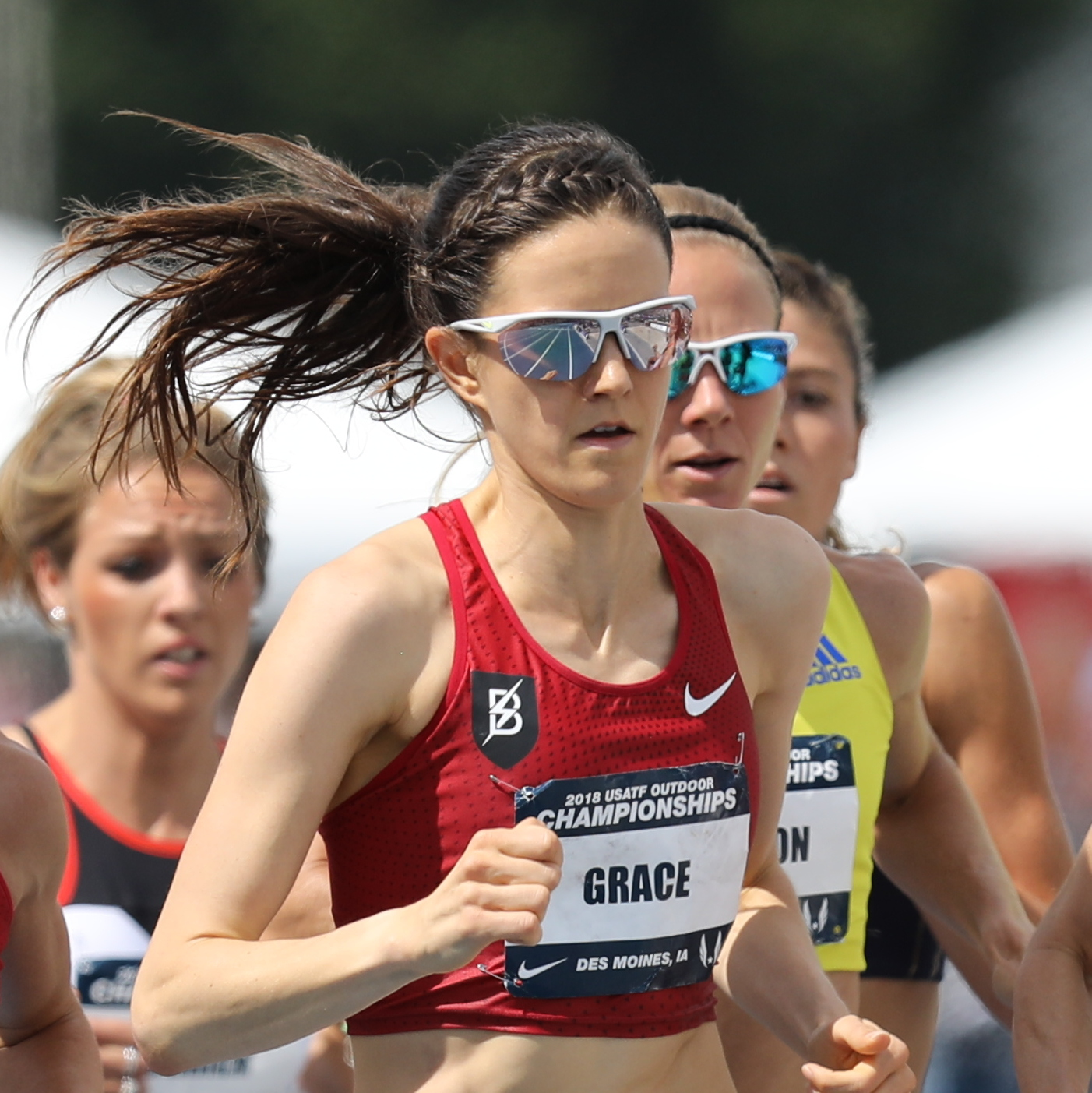 Kate Grace racing at US track and field in 2018